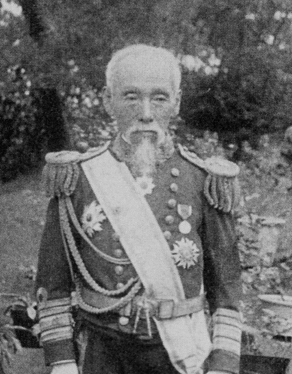 Nagayoshi Maki